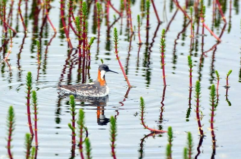 Red-necked phalarope on St. Paul by Ryan Deregnier/USFWS.